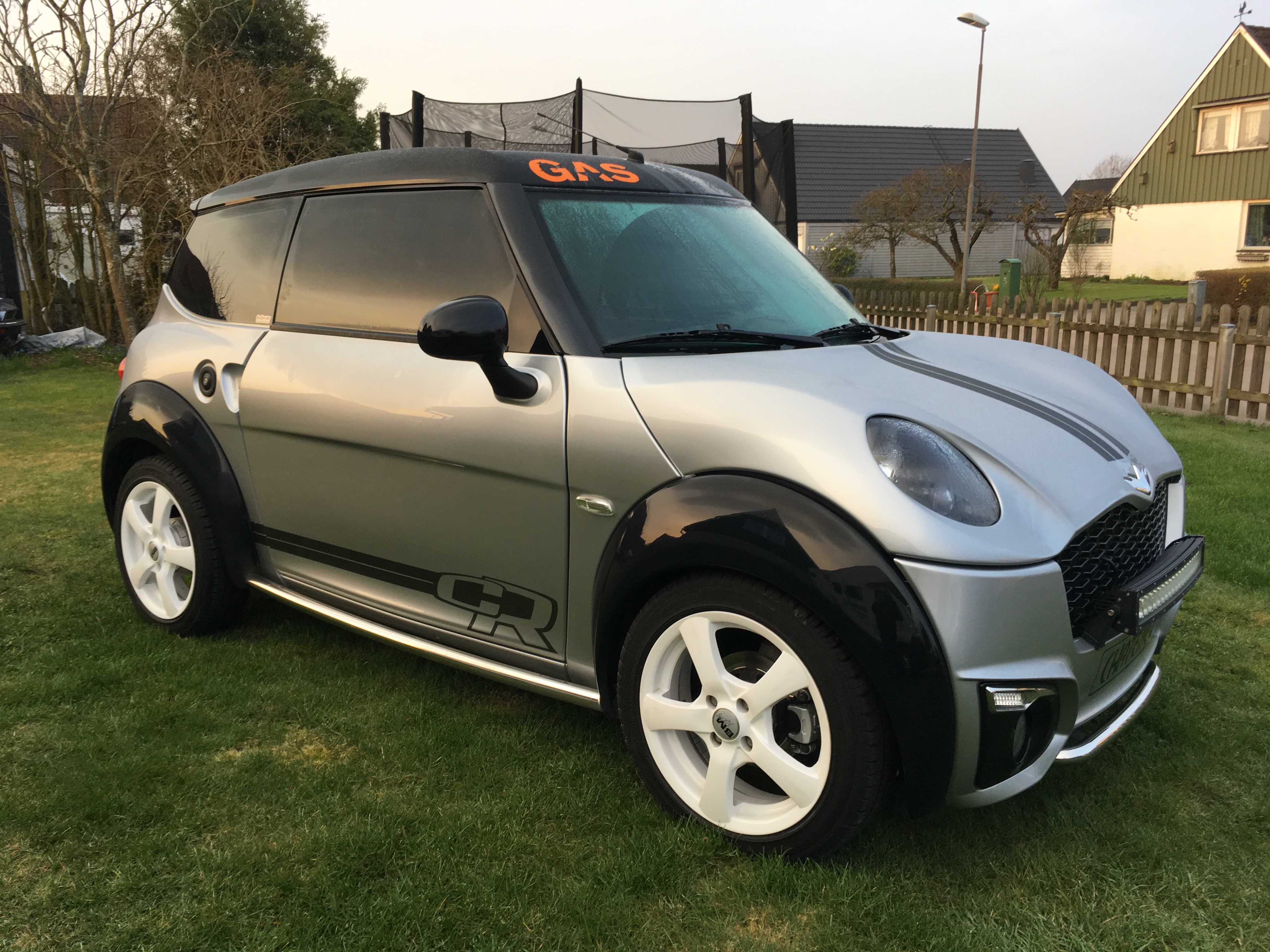 Chatenet CH28 with optional white five spoke wheels, stainless tubes and LED ramp, private owned in Sweden